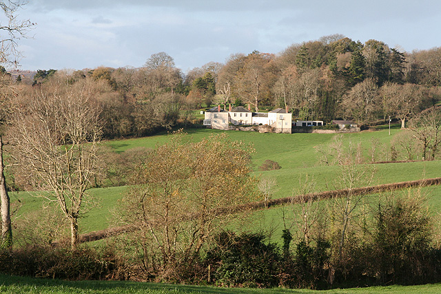 Shute: Old Stables, New Shute House, Shute, Devon. Looking north west